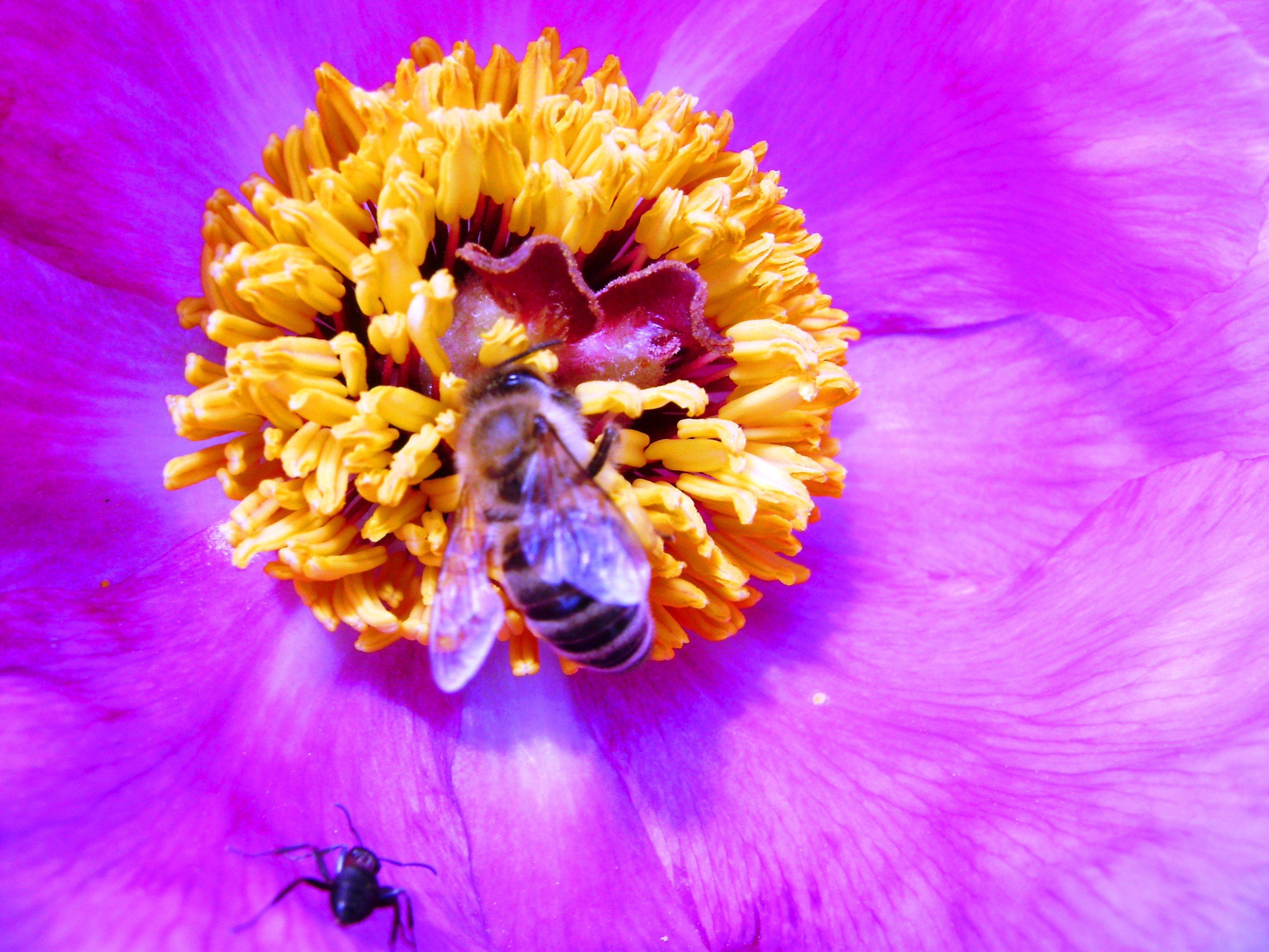 Rugova Mount